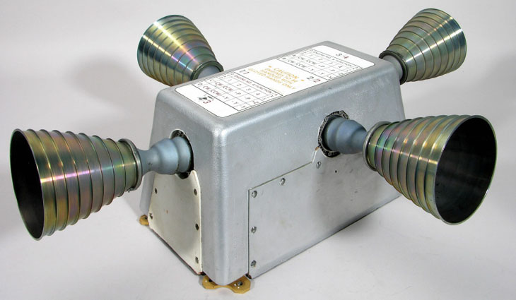 A block of 4 R-4D RCS thrusters as used on the Apollo Command/Service Module